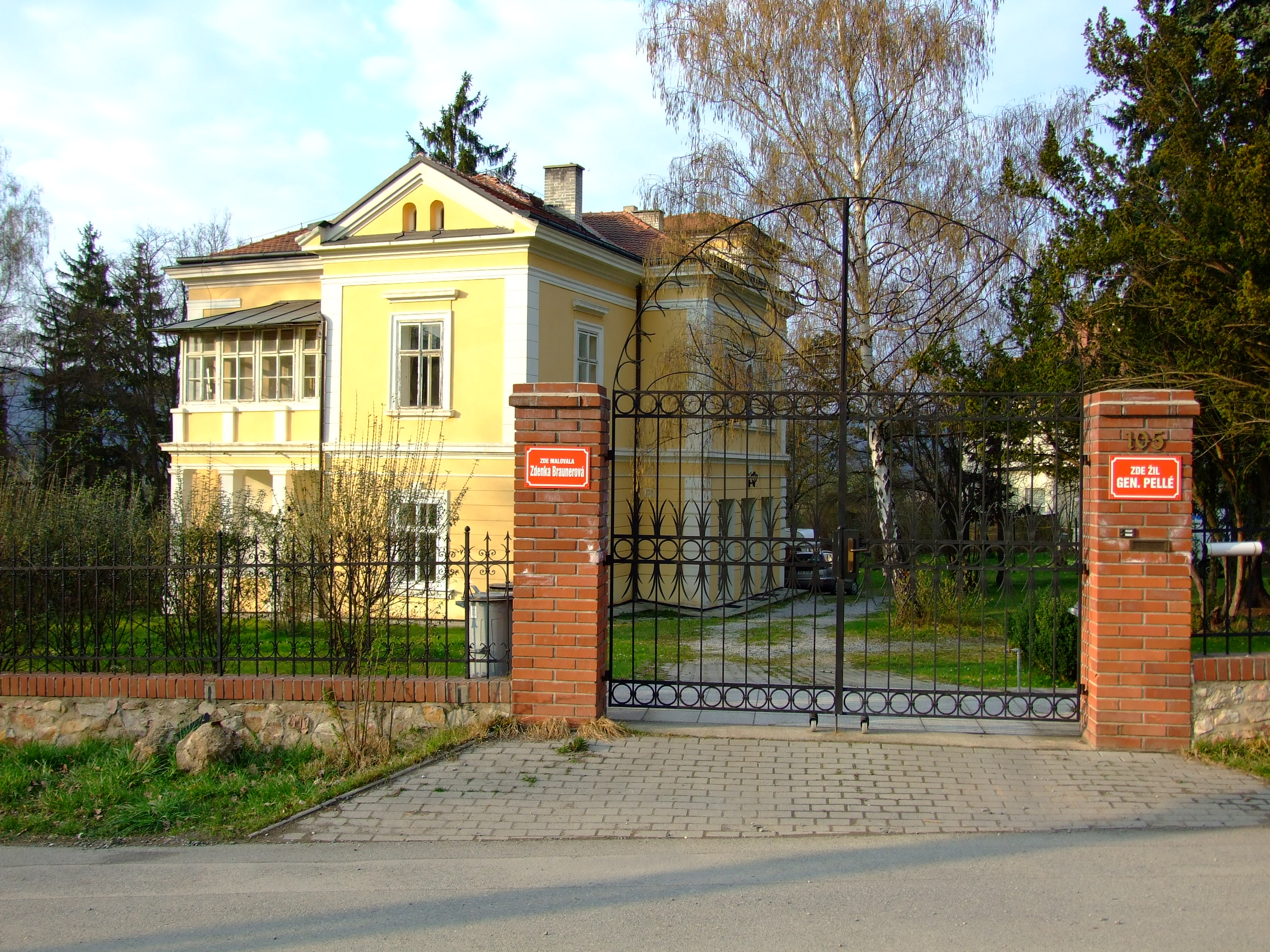 Dobřichovice-Brunšov, Prague-West District, Central Bohemian Region, the Czech Republic. A villa of gen. Pellé.